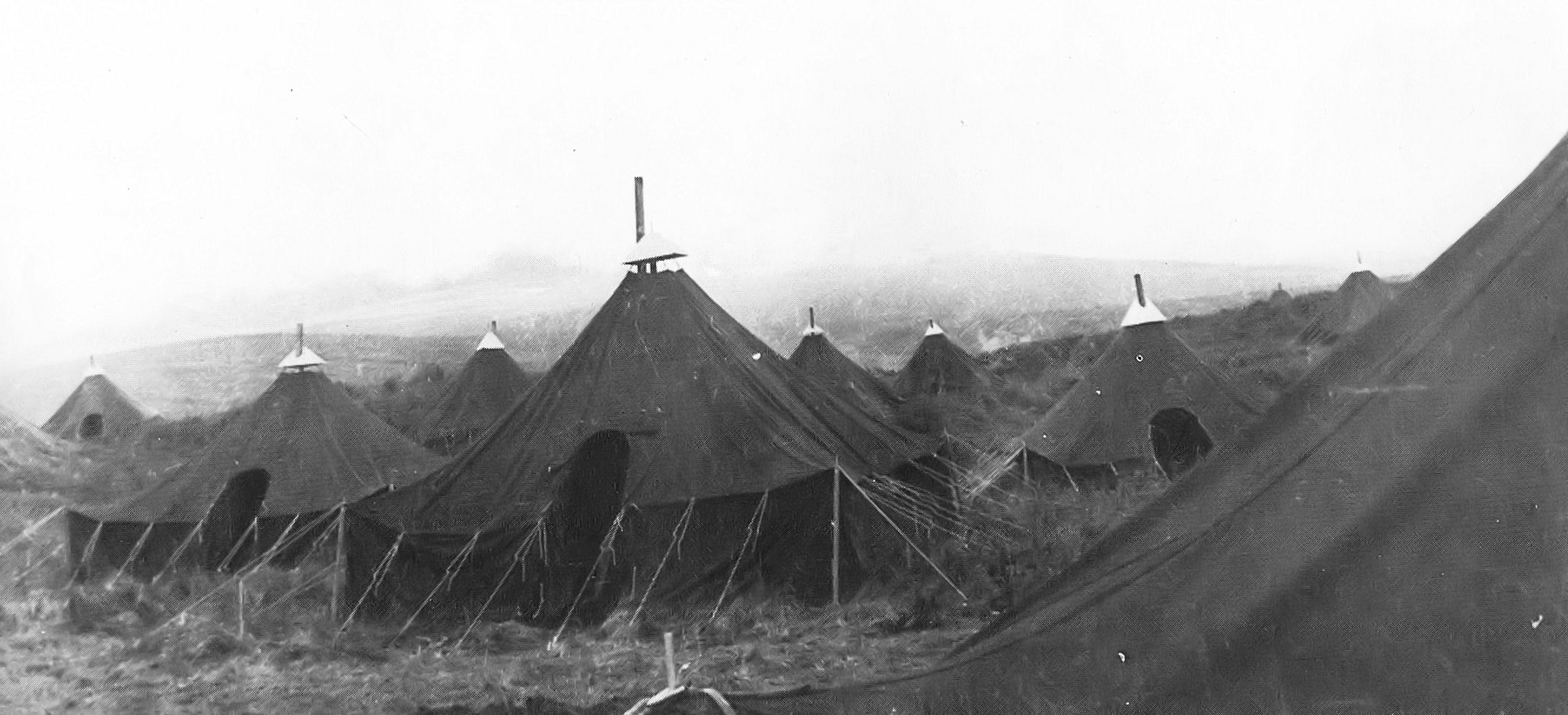 Billeting Tents at Fort Glenn Army Air Base, Alaska, May 1942